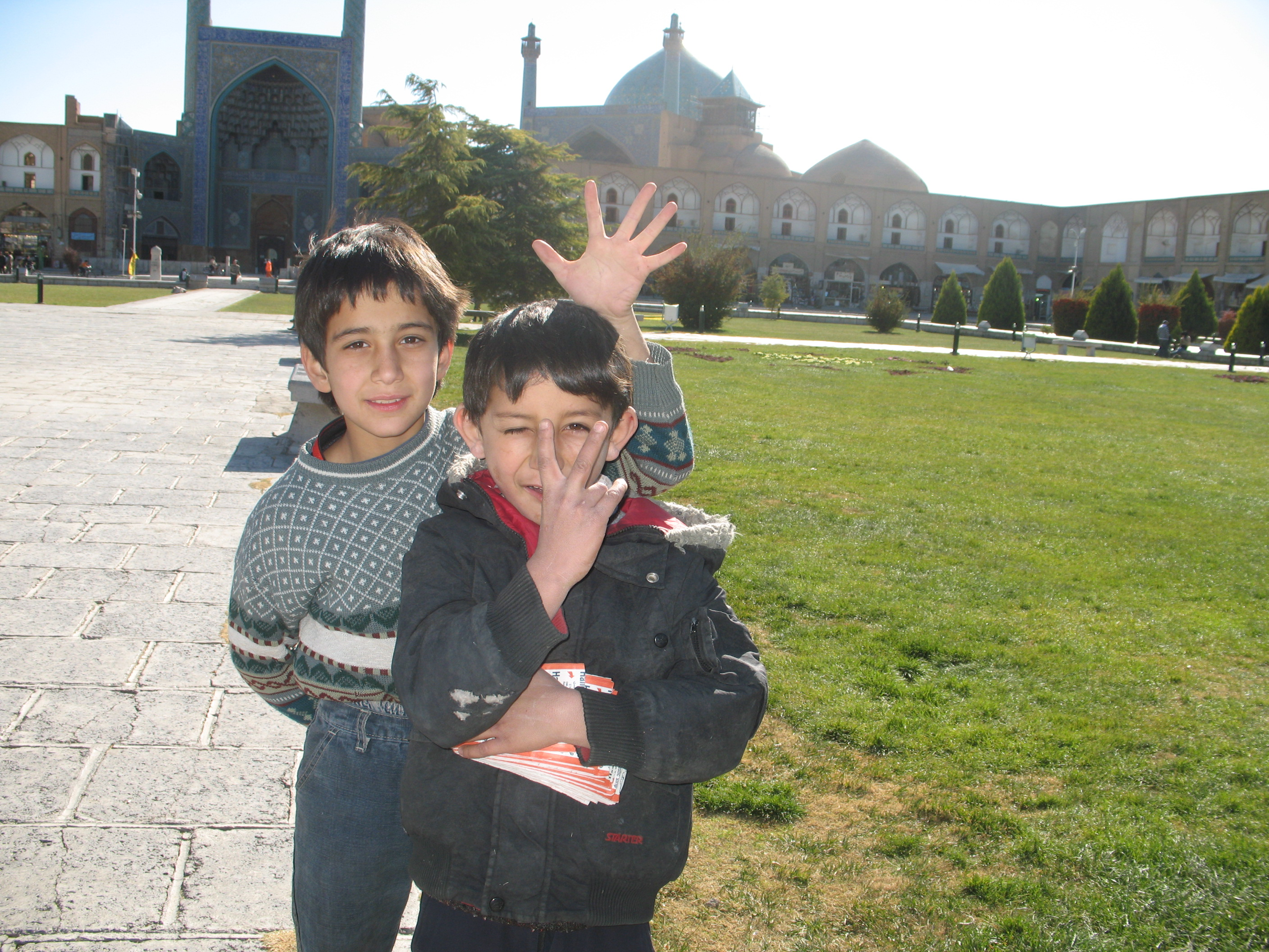 Two Afghan boys selling prayers on Imam square in Esfahan, Iran.